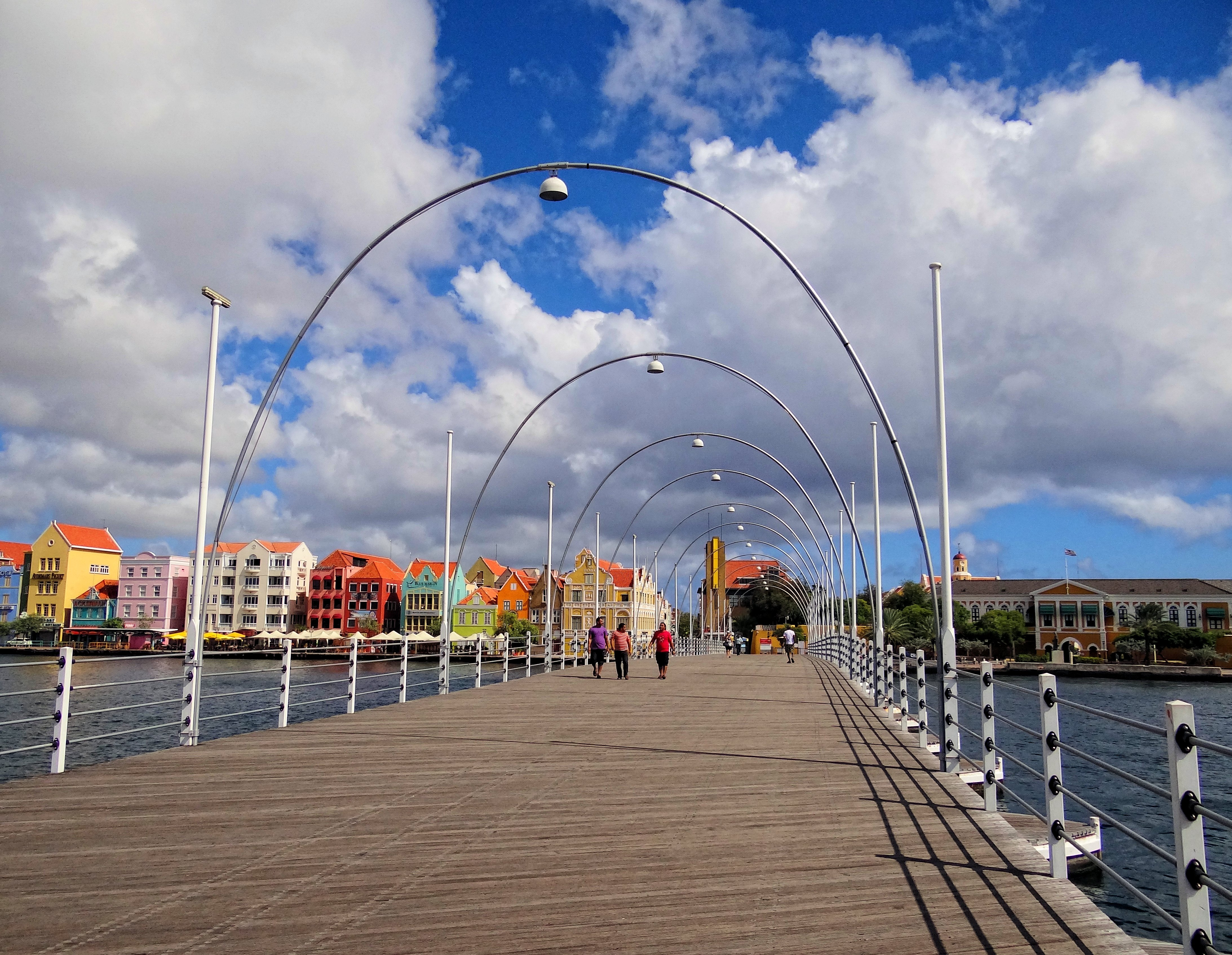 Queen Emma Bridge (nickname Swinging Old Lady, Willemstad, Curaçao, Netherlands Antilles